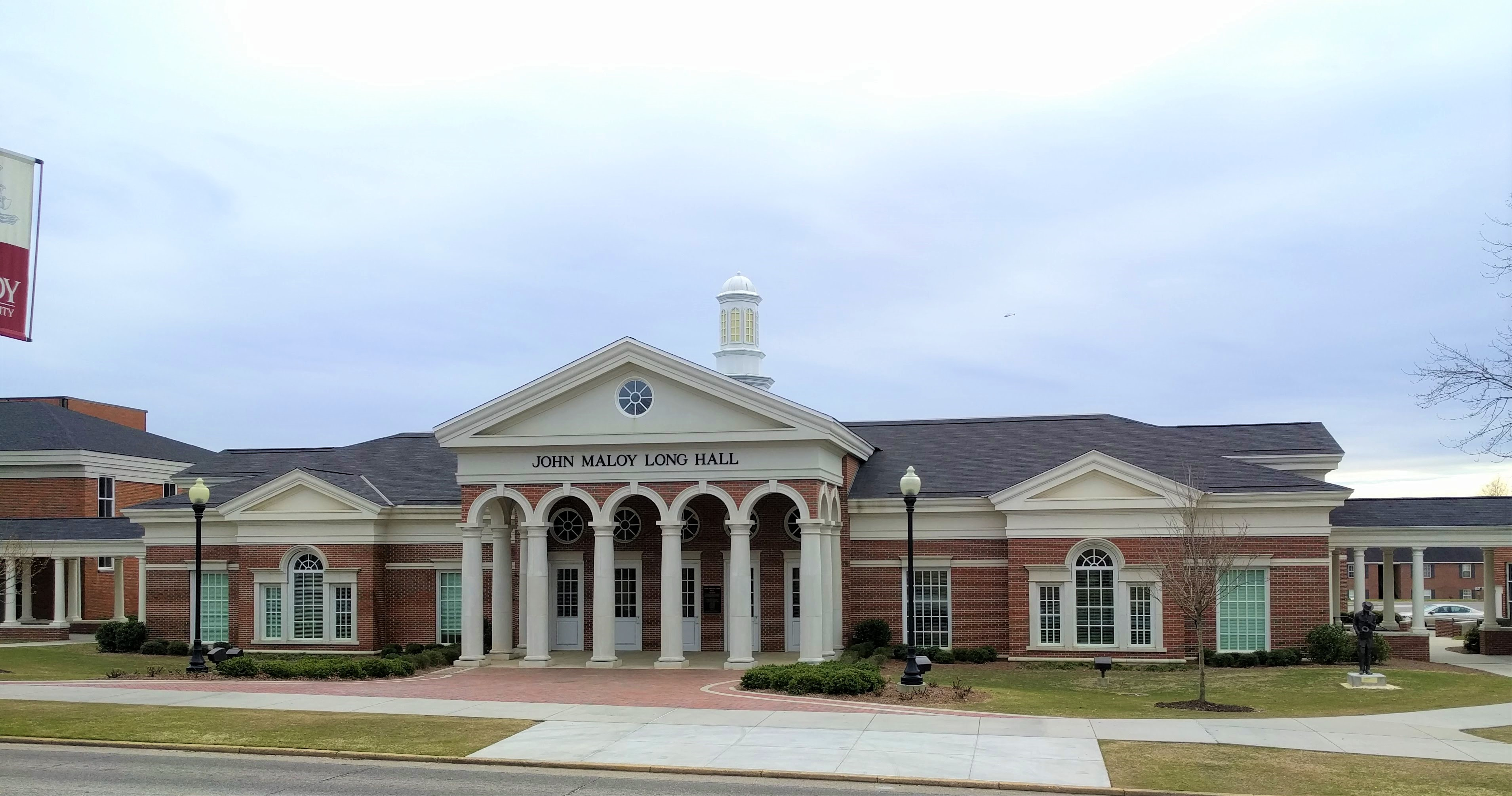 John Maloy Long Hall of Music on the campus of Troy University.